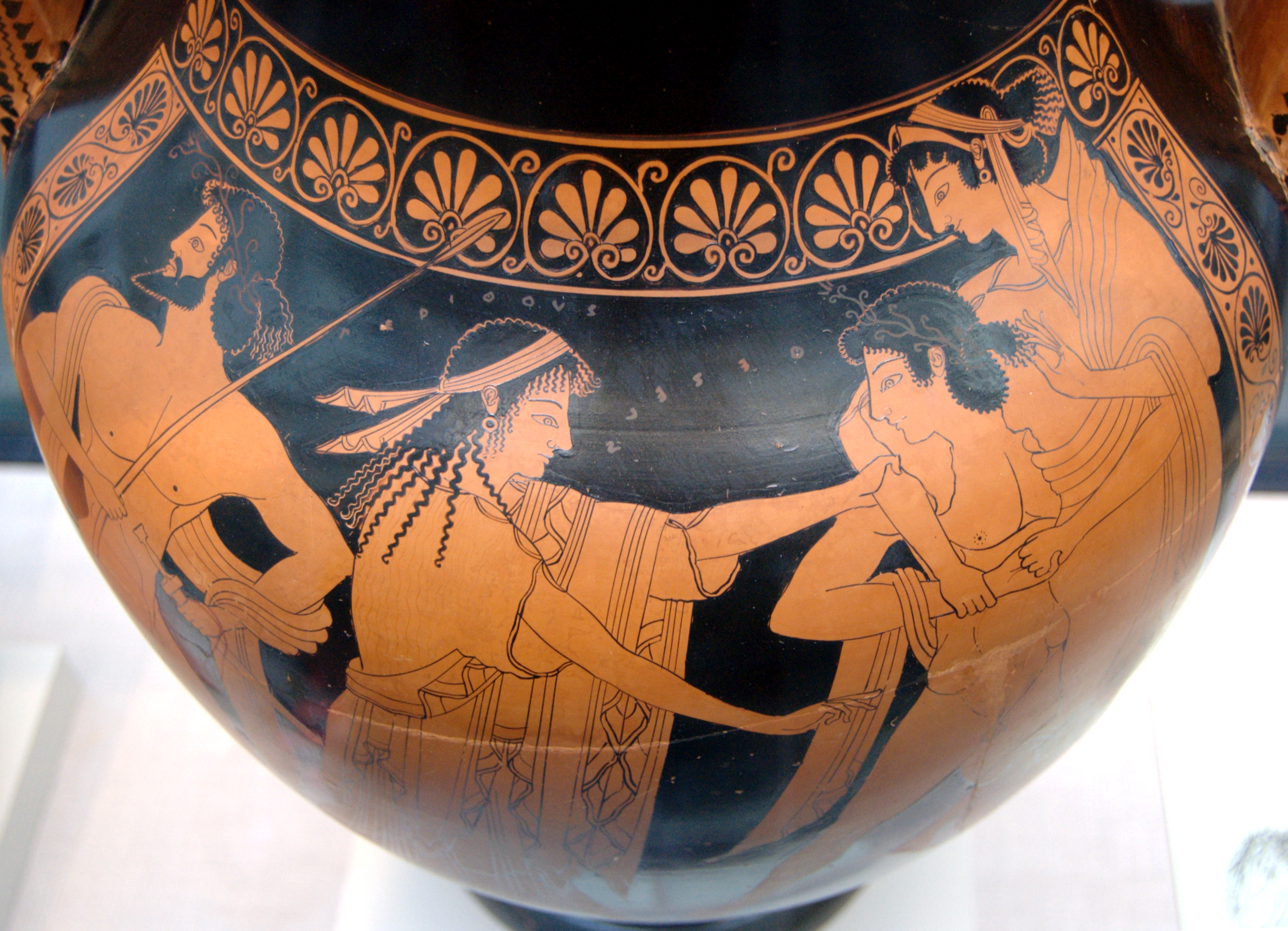 Theseus carrying off young Helena (Pirithous left). Side A of an Attic red-figure amphora, ca. 510 BC. From Vulci.